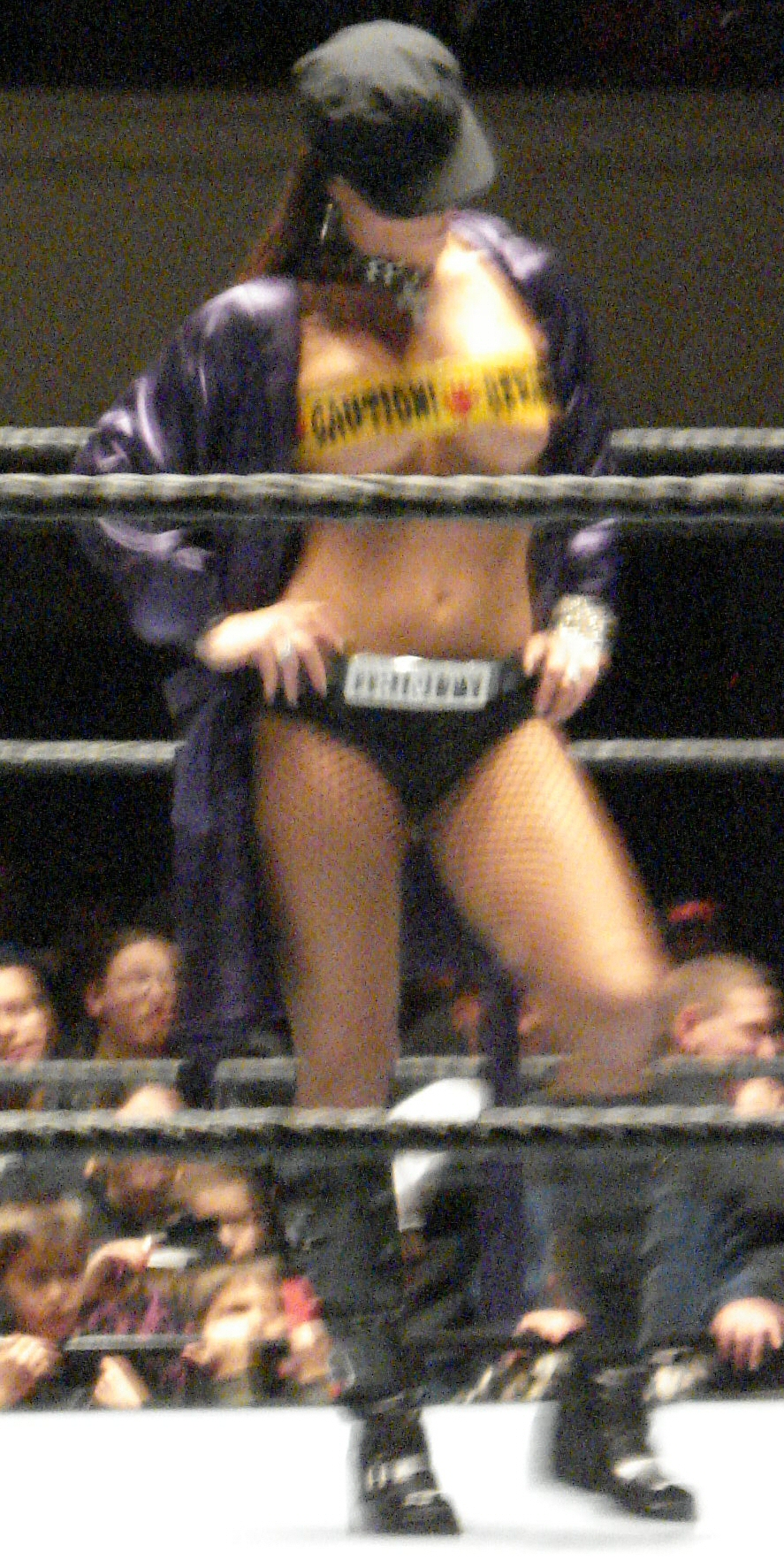 Trinity at an ECW live event. Racine. October 28, 2006. Taken by me.